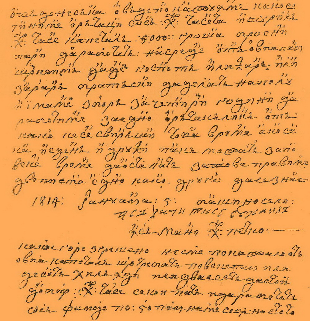 Bashino Selo 1814 Letter